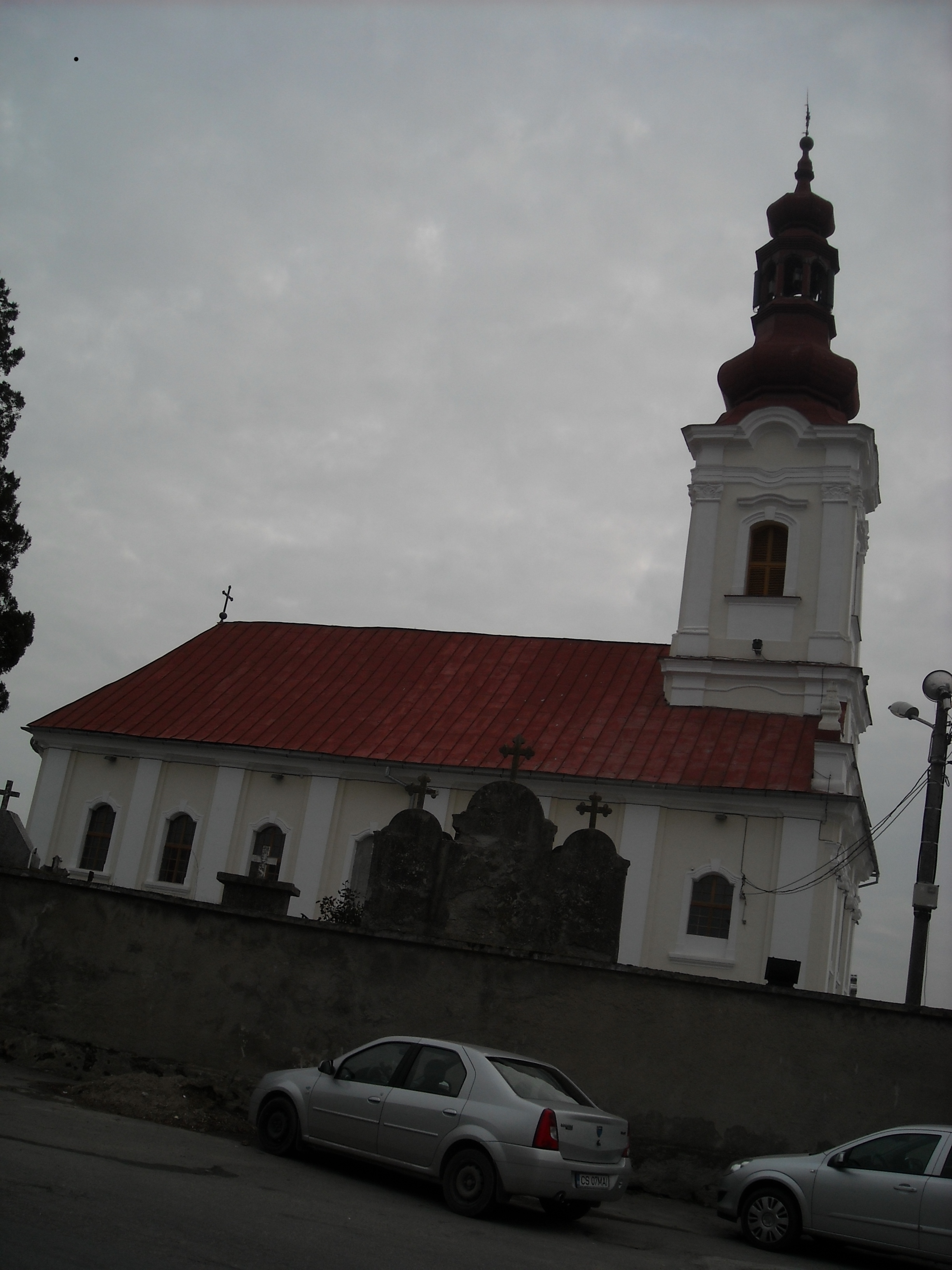 the Saint John the Baptist Orthodox church in Caransebeș